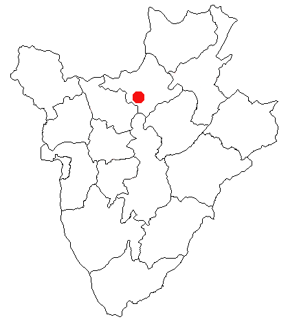 Ngozi, Burundi Location Map; created with the GIMP. Made by User:Acntx.